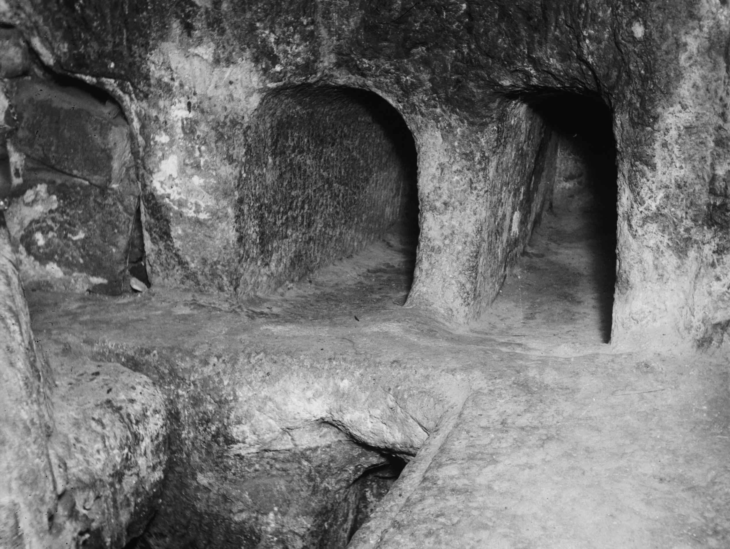 Church of the Holy Sepulchre - ancient tombs found in the church